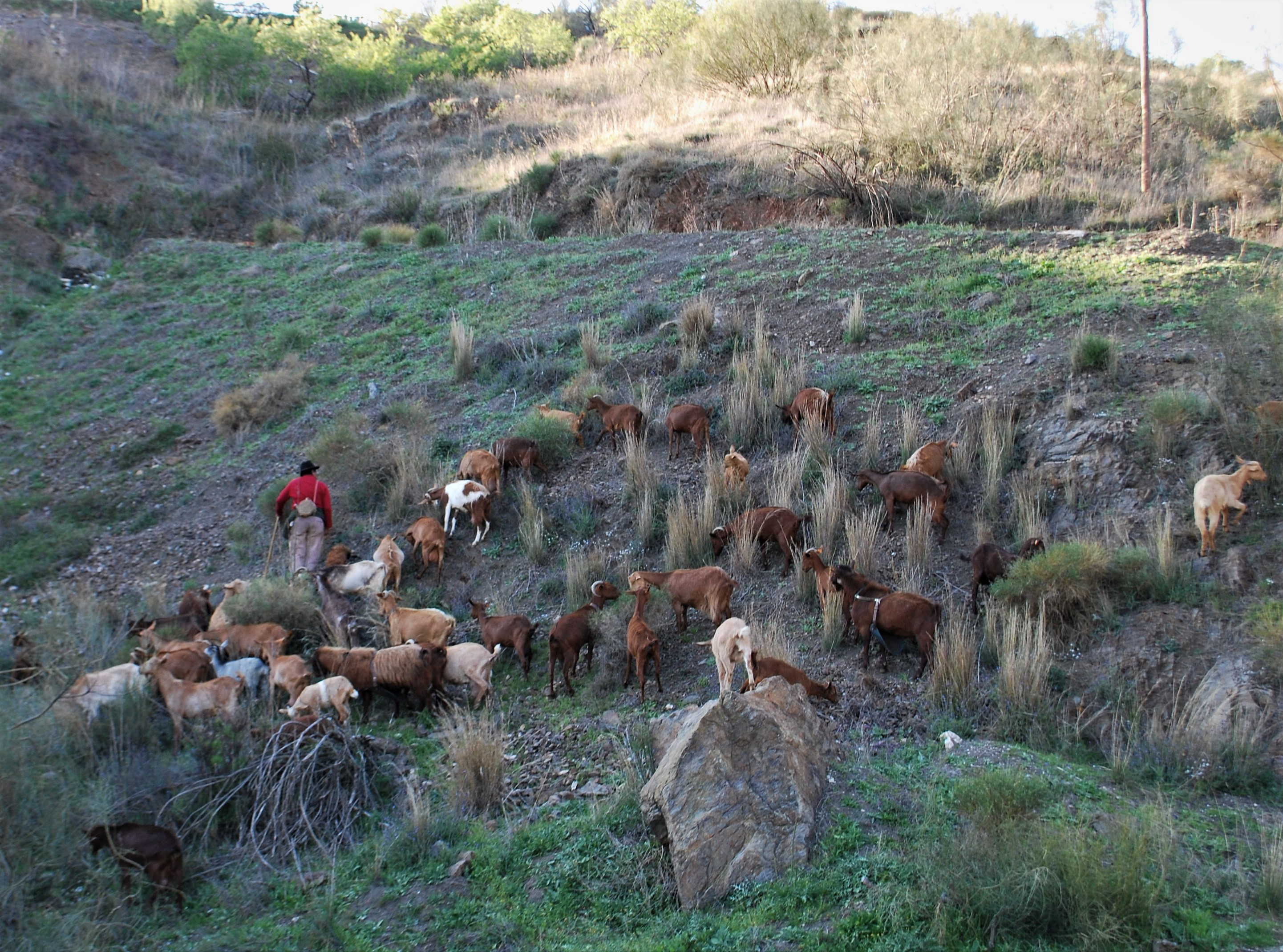 Goats, Arenas, Spain